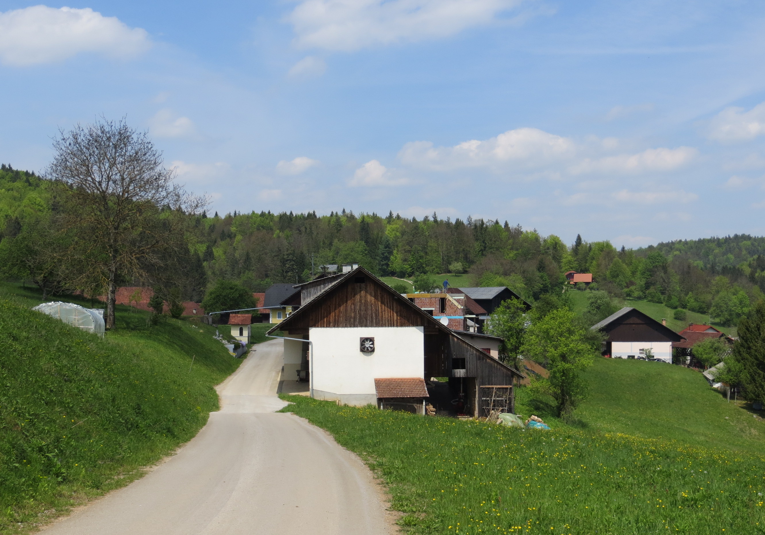 Potok pri Muljavi, Municipality of Ivančna Gorica, Slovenia